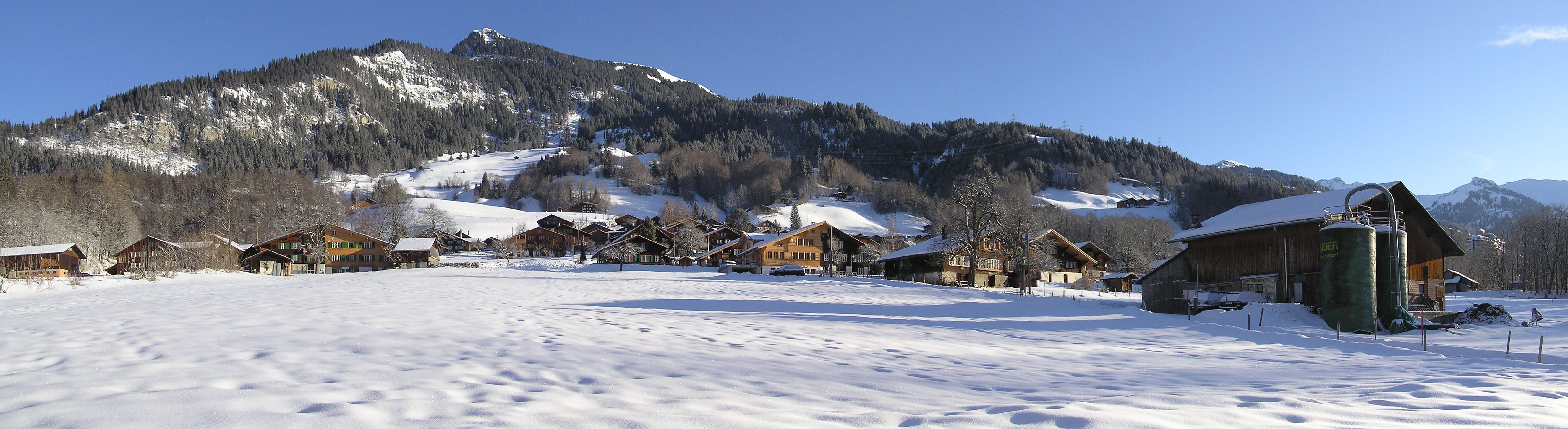 panorama of Hasliberg-Hohfluh toward north